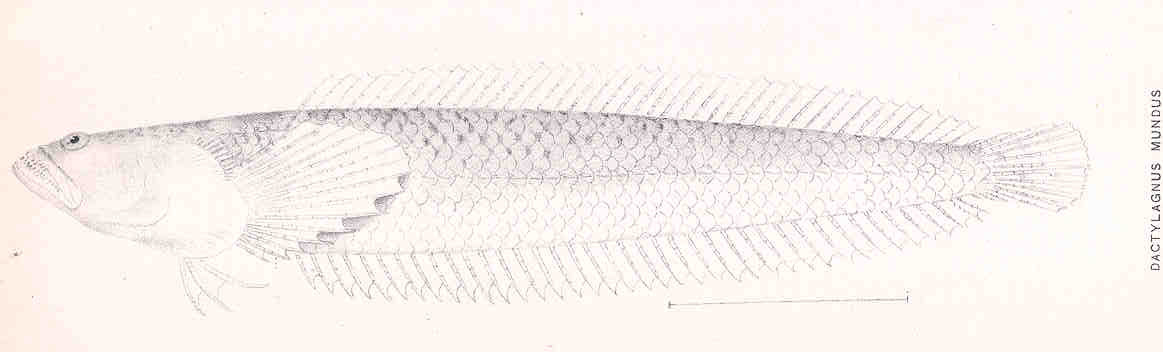 Dactylagnus mundus Subject: Dactyloscopidae, Dactylagnus mundus Tag: Fish